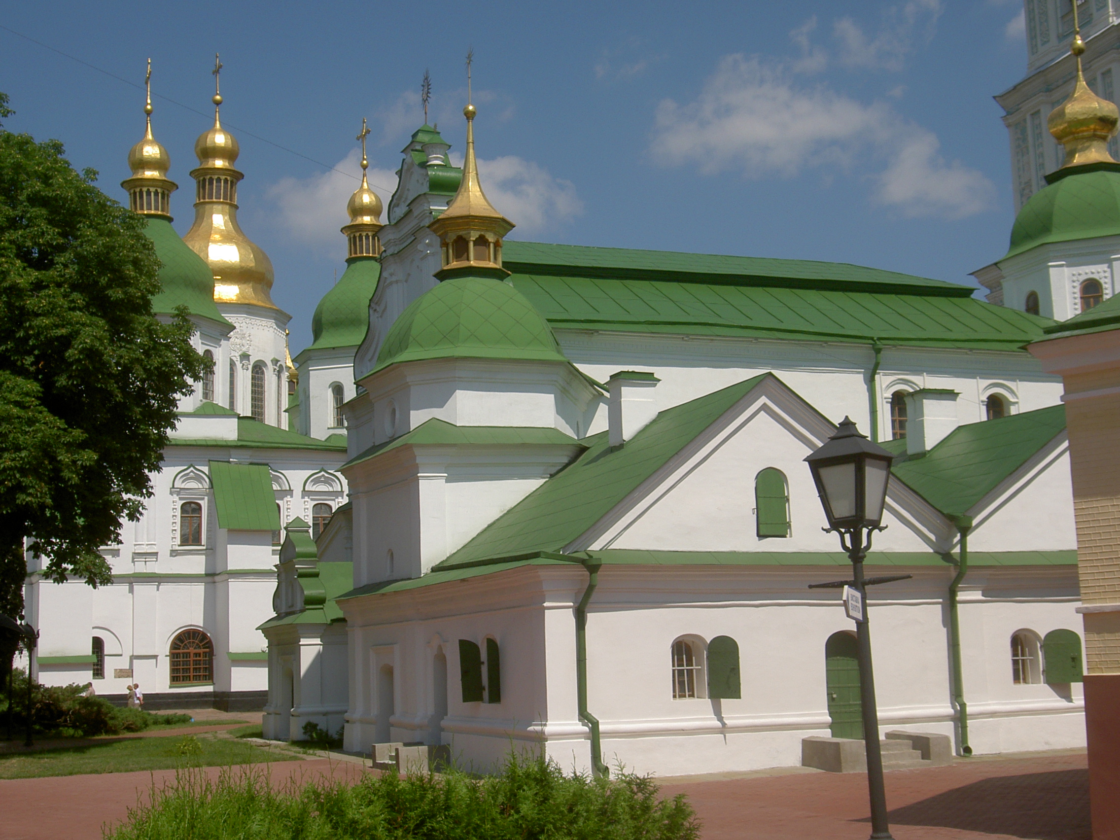 Saint Sophia Cathedral in Kiev